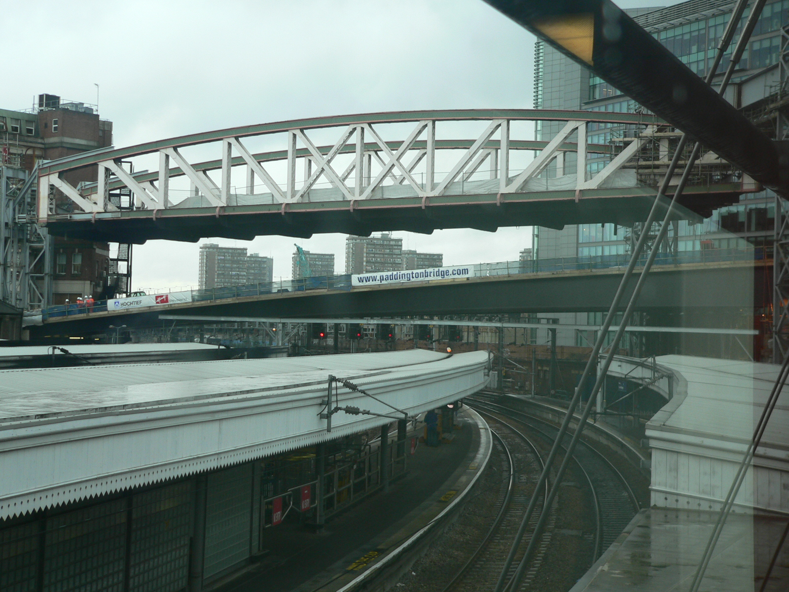 This photograph was taken on 24 October, 2005 from the bridge between the mainline and London Undergound stations. The old (higher) and new (lower) Bishop's Bridge Road bridges over the London Underground Hammersmith and City Line, suburban and intercity lines at the western end of Paddington station.